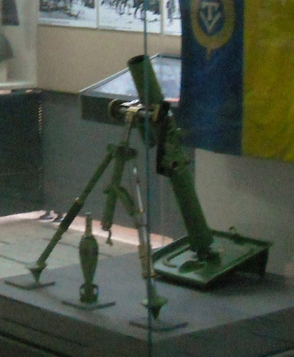 A 60 mm Brandt Mle 1935 on display at "King Ferdinand" National Military Museum in Bucharest. This mortar was licensed built in Romania prior to and during the Second World War at Voina plant in Brașov.